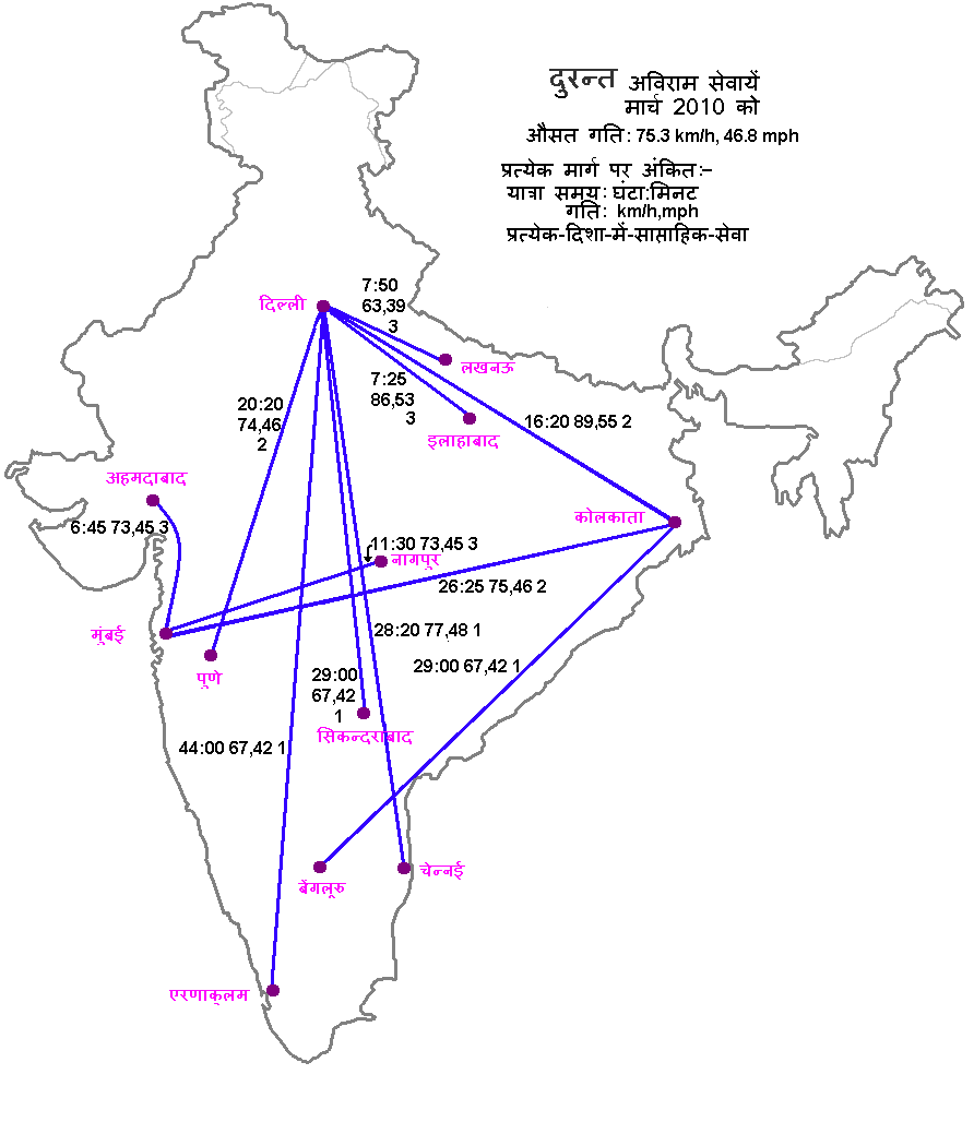 Indian Railways Duronto weekly services map, travel time and speed.